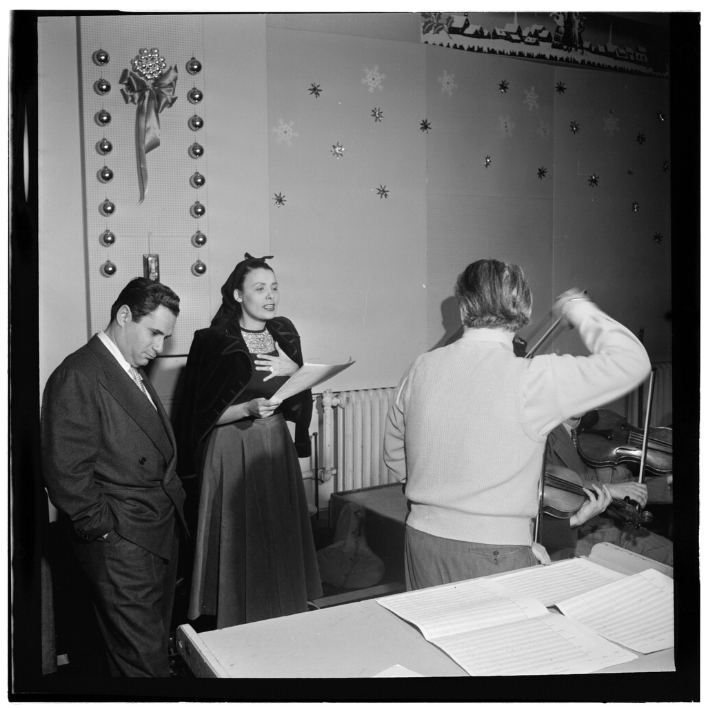 Gottlieb, William P., 1917-, photographer. [Portrait of Lena Horne and Lennie Hayton, New York, N.Y., between 1946 and 1948] 1 negative : b&w ; 2 1/4 x 2 1/4 in. Notes: Gottlieb Collection Assignment No. 143 Reference print available in Music Division, Library of Congress. Purchase William P. Gottlieb Forms part of: William P. Gottlieb Collection (Library of Congress). Subjects: Horne, Lena Hayton, Lennie, 1908-1971 Women jazz musicians--1940-1950. Jazz singers--1940-1950. Conductors (Music)--1940-1950. Format: Portrait photographs--1940-1950. Group portraits--1940-1950. Film negatives--1940-1950. Rights Info: Mr. Gottlieb has dedicated these works to the public domain, but rights of privacy and publicity may apply. Repository: (negative) Library of Congress, Prints & Photographs Division, Washington D.C. 20540 USA, (reference print) Library of Congress, Music Division, Washington D.C. 20540 USA, Part Of: William P. Gottlieb Collection (DLC) 99-401005 General information about the Gottlieb Collection is available at Persistent URL: Call Number: LC-GLB23- 0430 This work is from the William P. Gottlieb collection at the Library of Congress. Rights and restrictions.In accordance with the wishes of William Gottlieb, the photographs in this collection entered into the public domain on February 16, 2010.